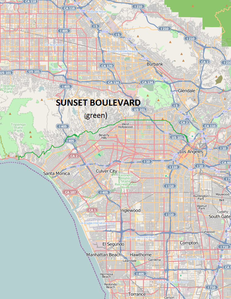 Map showing Sunset Boulevard — in the central and western Los Angeles area.